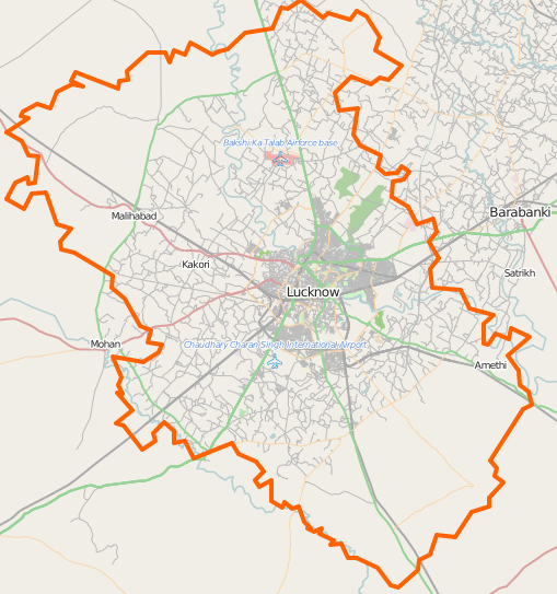 Map showing Lucknow District scope